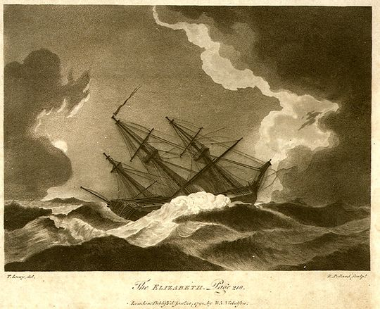 The Elizabeth, Page 218